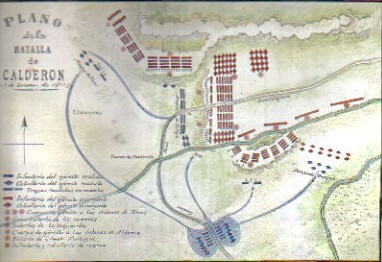 Map of the Battle of Calderón Bridge (1811)